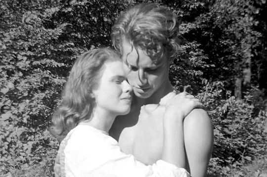 Charlton Heston et Katharine Bradley dans Peer Gynt, en 1941.